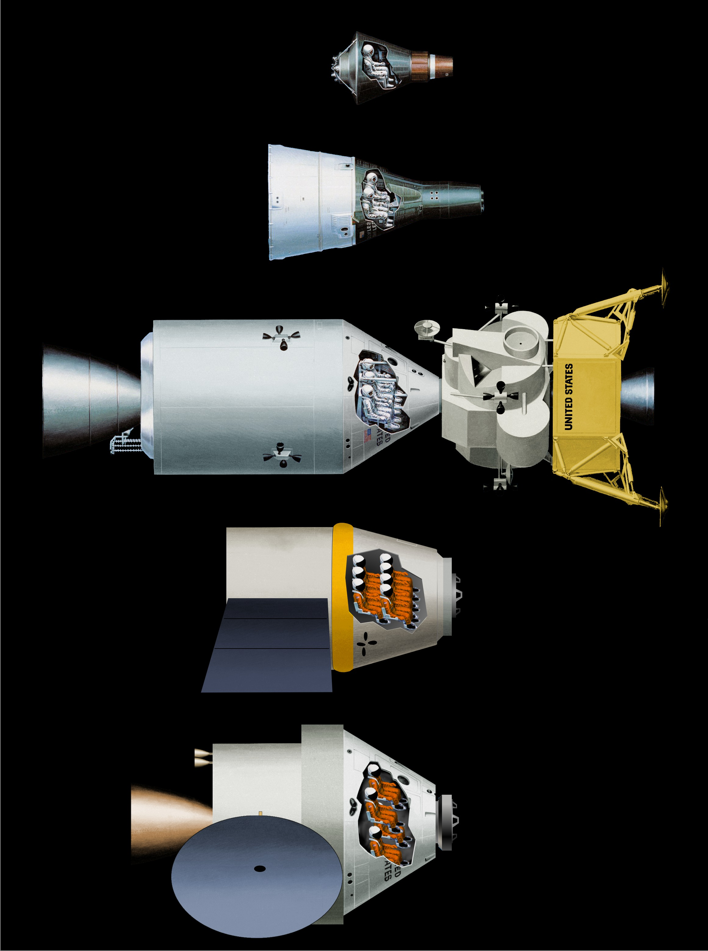 Illustration of the relative sizes of the one-man Mercury spacecraft, the two-man Gemini spacecraft, and the three-man Apollo spacecraft.